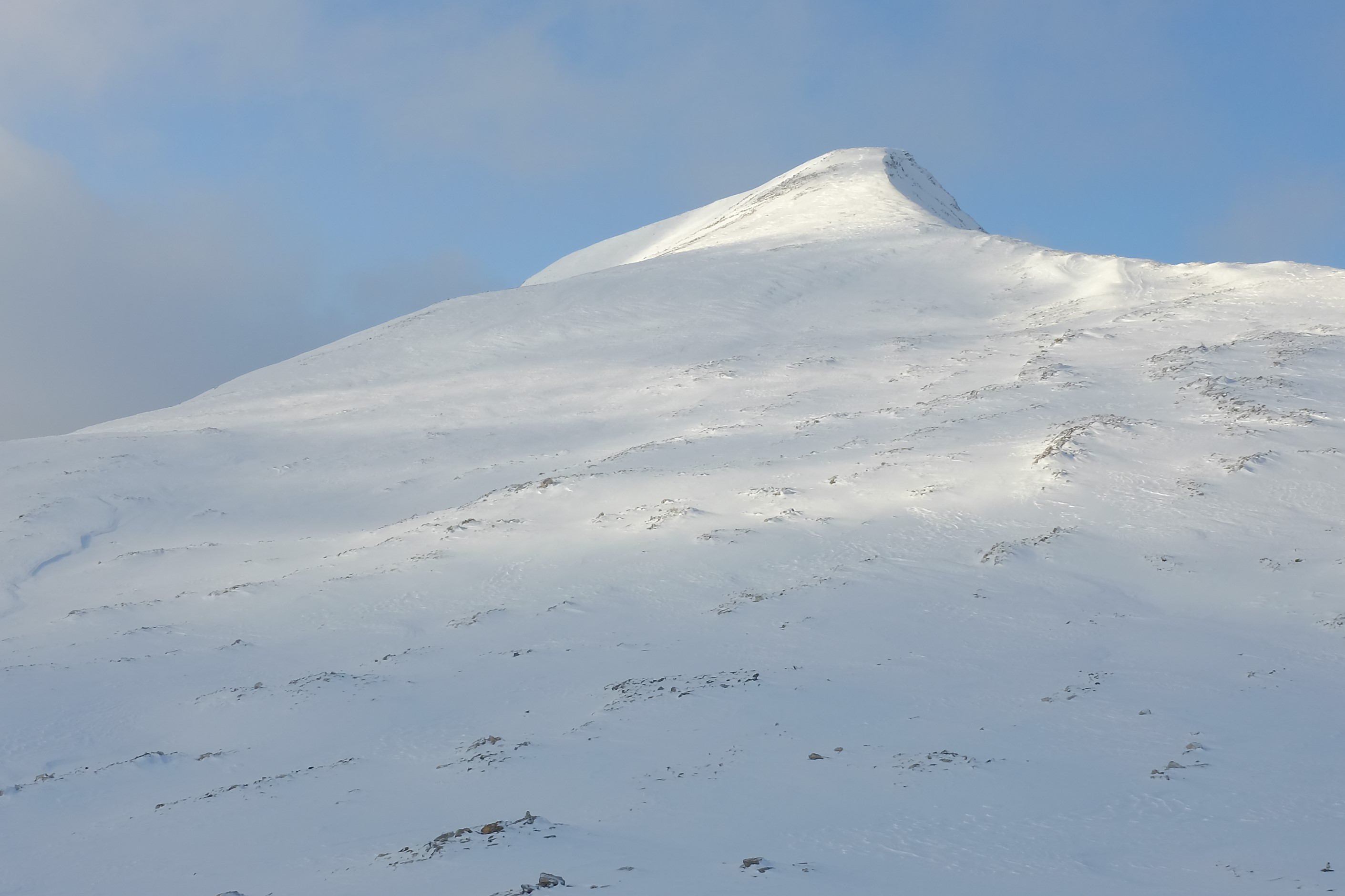 Montains in Reinheimen National Park in Norway. The national park that was established in 2006. The park consists of a 1,969-square-kilometre (760 sq mi) continuous protected mountain area. It is located in Møre og Romsdal and Oppland counties in Western Norway.